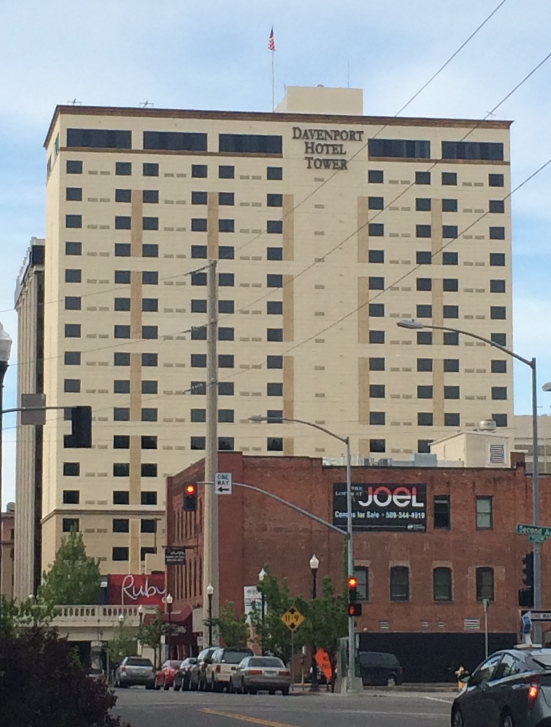 The Davenport Hotel Tower in Spokane, Washington, USA